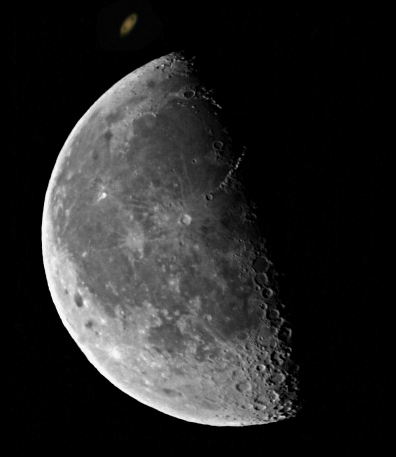 The images of the Moon and Saturn were taken on different days and combined in Photoshop.